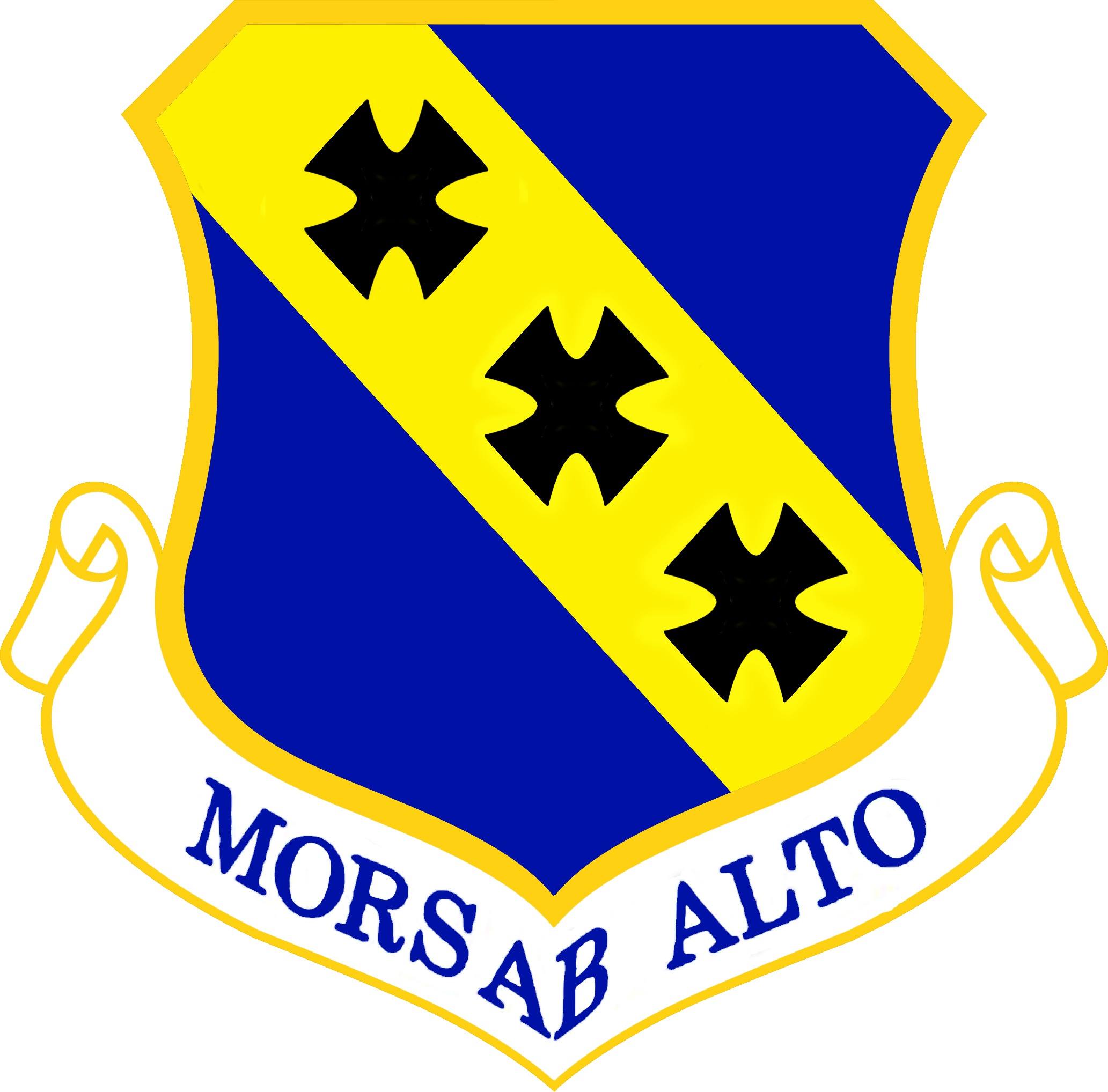 Emblem of the 7th Bomb Wing of the United States Air Force